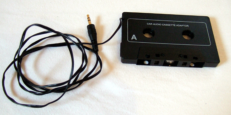 Adapter cassette